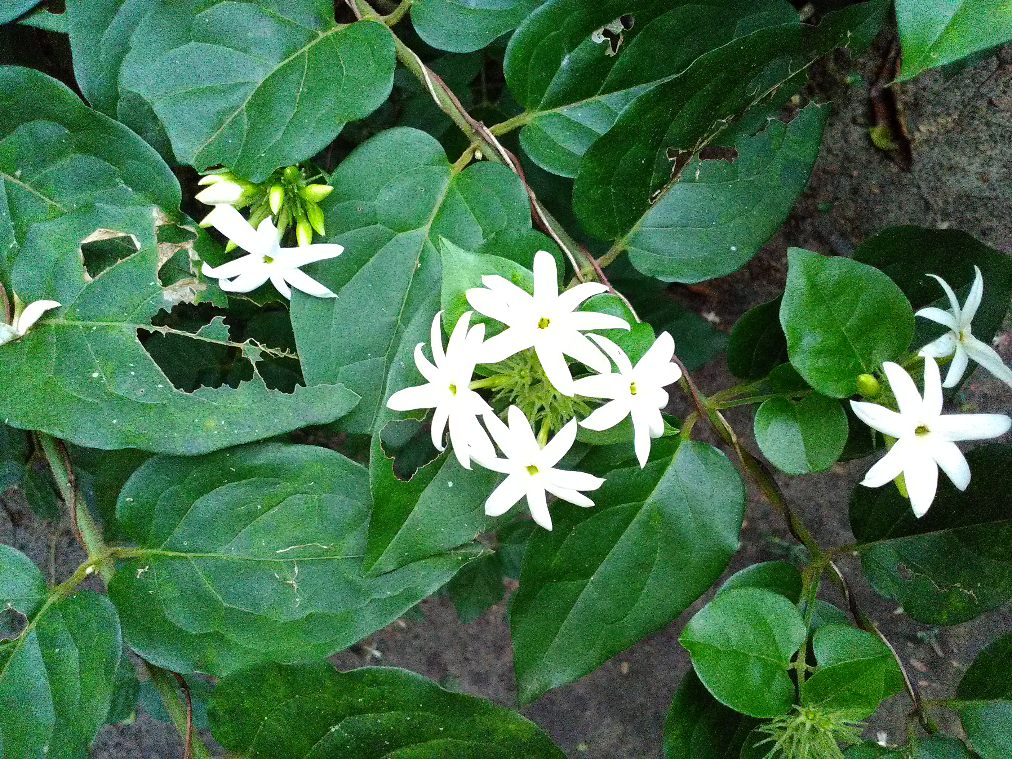 Jasmine